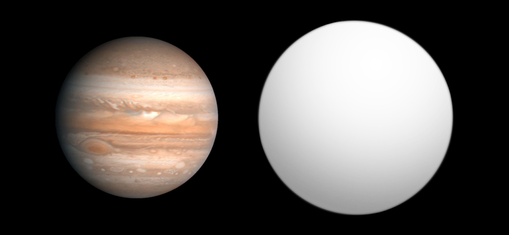 Comparison of best-fit size of the exoplanet OGLE-TR-56 b with the Solar System planet Jupiter, as reported in the Extrasolar Planets Encyclopaedia[1] as of 2010-10-03. ↑ Extrasolar Planets Encyclopaedia (2010-09-30). Retrieved on 2010-10-03.